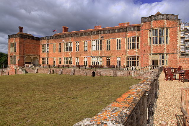 Troco Terrace, Bramshill House, nr Hazely, Hampshire